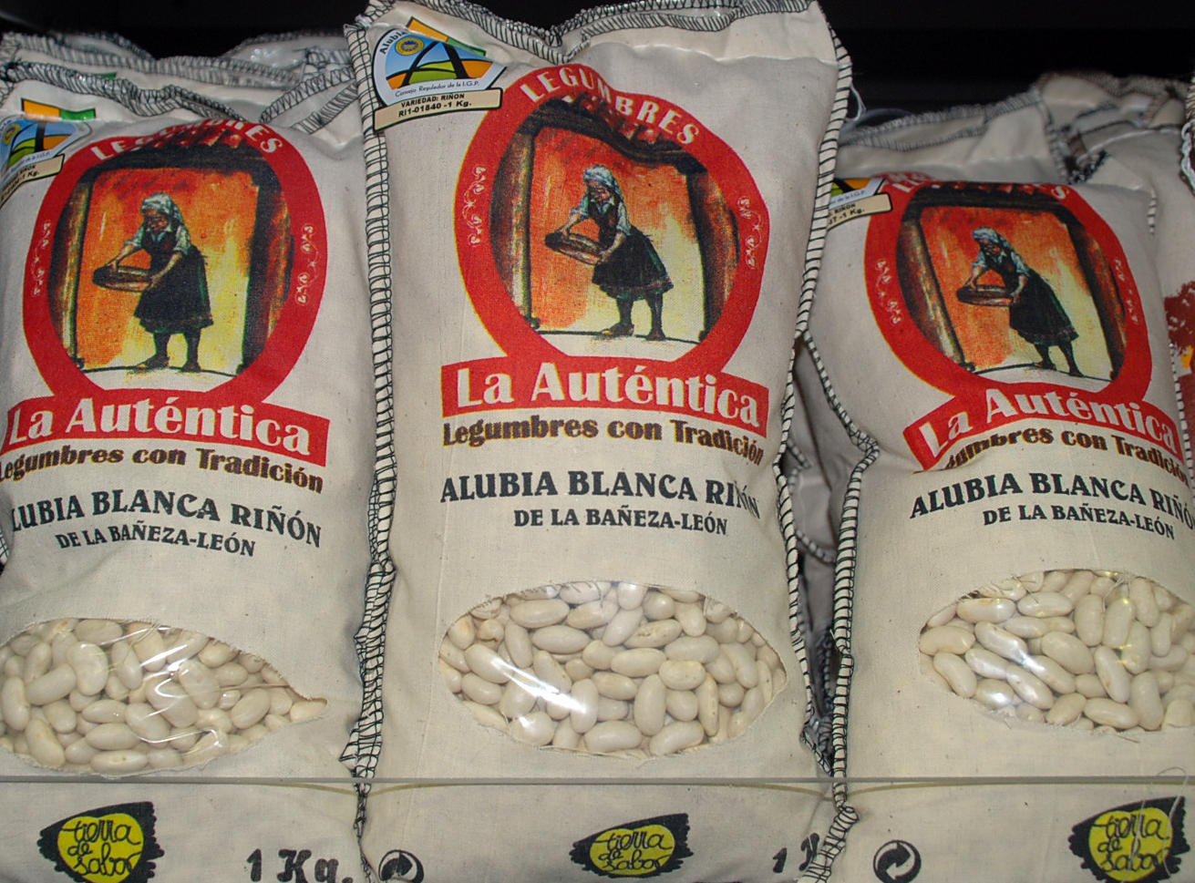 "Riñón" white beans from La Bañeza (León, Castile and León).